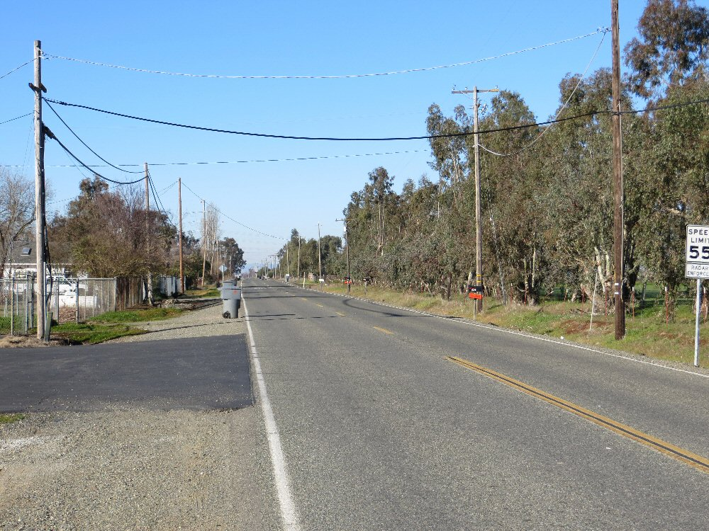 Pleasant Grove CA 704